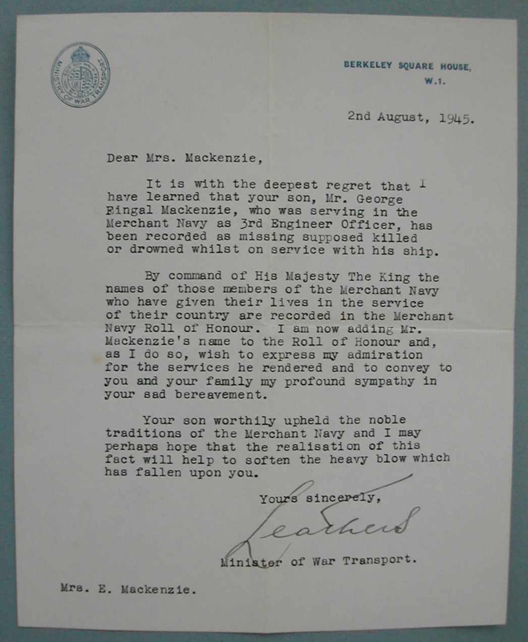 CondolenceLetter-MN